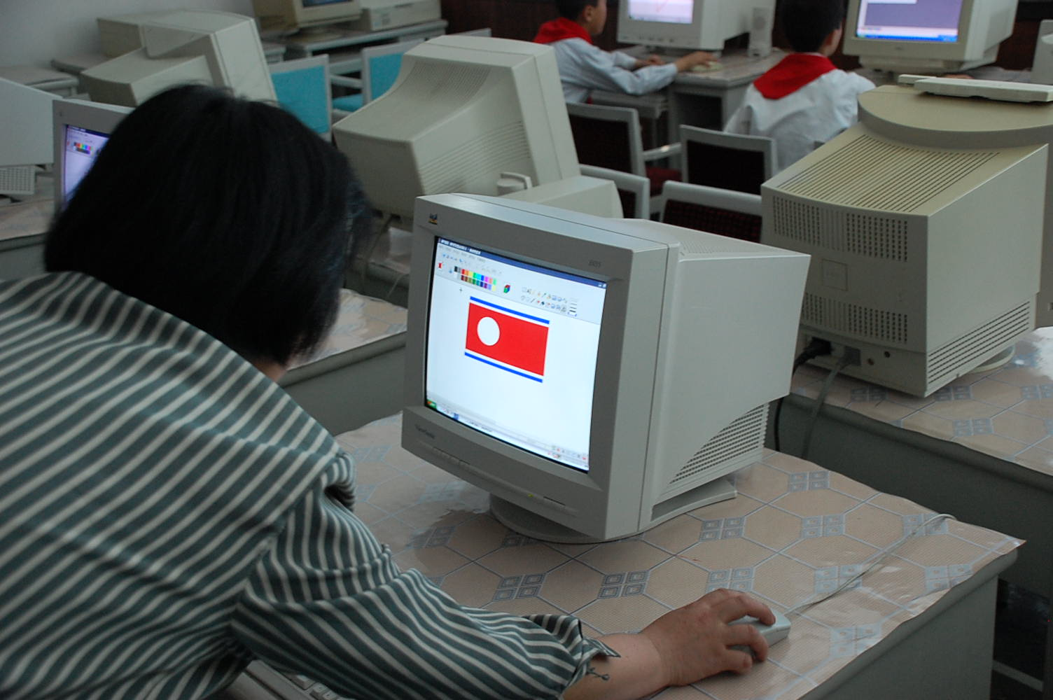 Trip to North Korea in June, 2008